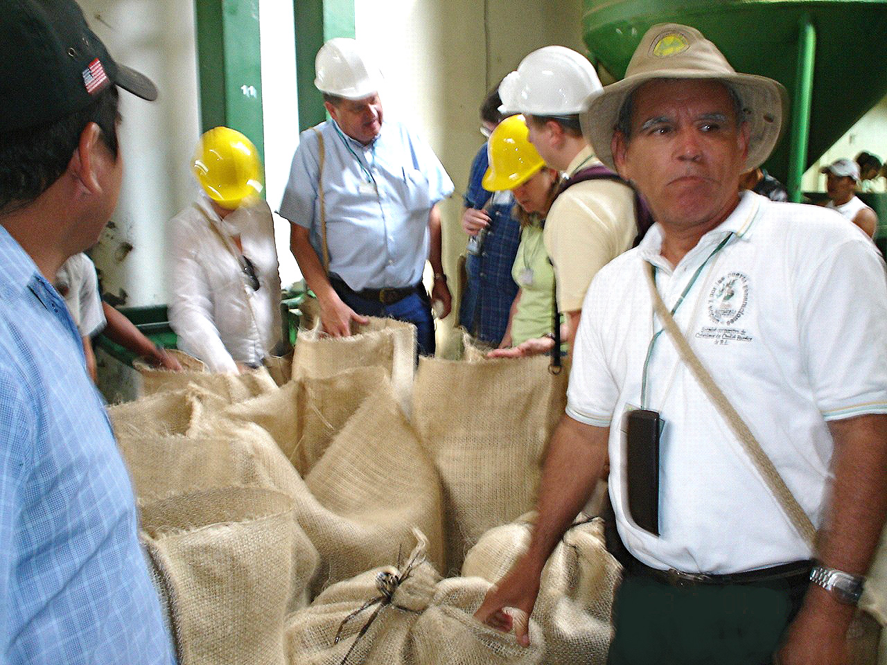 Members of the Ciudad Barrios Coffee Cooperative inspect coffee sacks in Cacahuatique, El Salvador